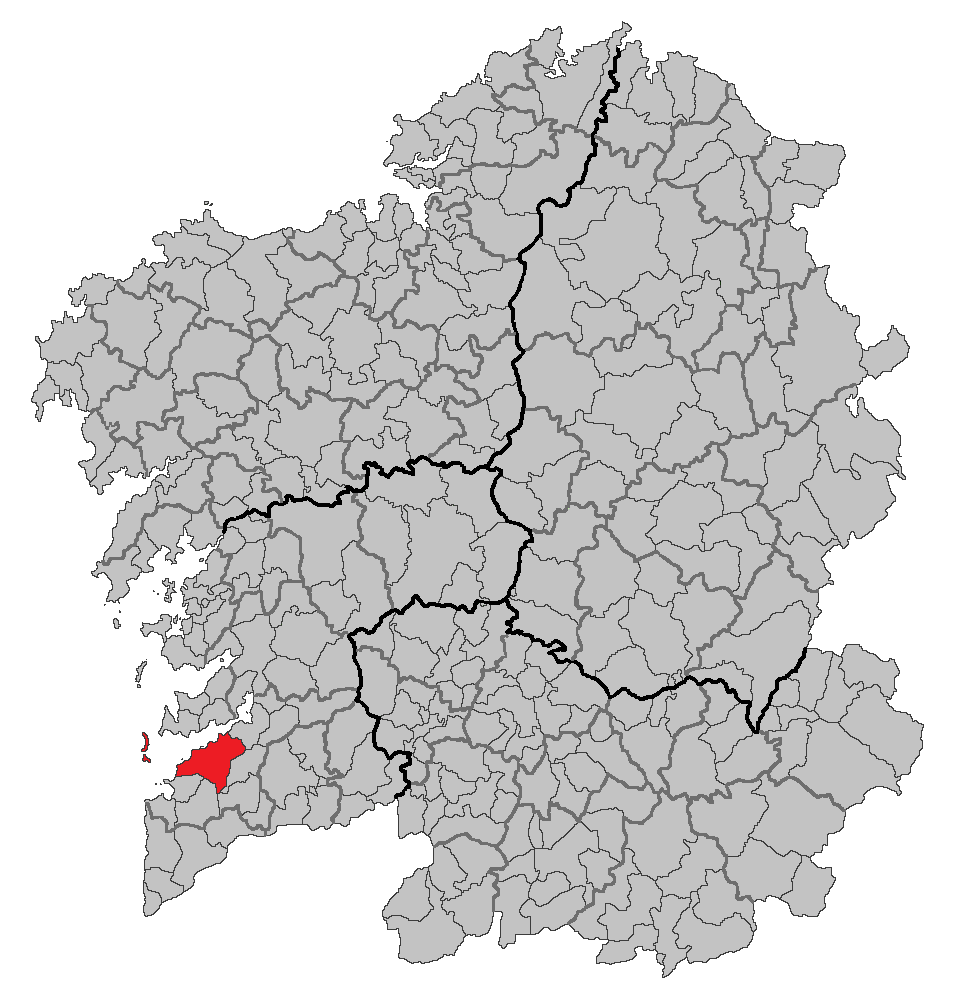 Location map of Vigo, Pontevedra, Galicia.